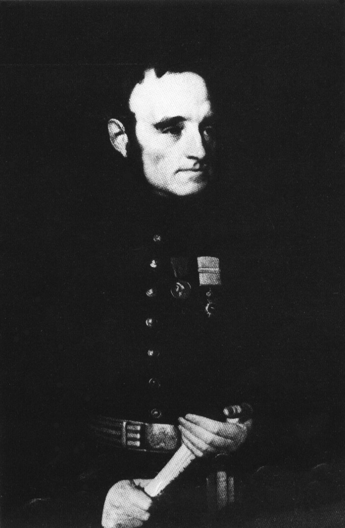 George Gawler (21 July 1795 – 7 May 1869)